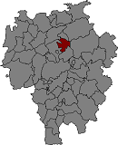 Location of Torelló in Osona